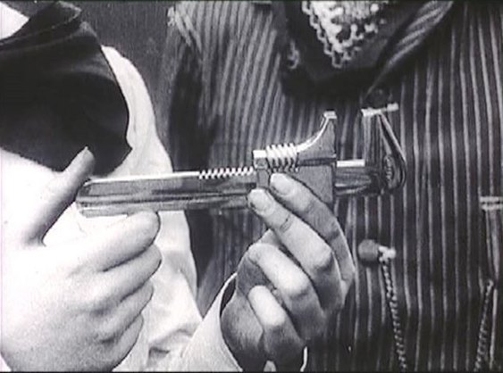 Screenshot from the film The Lonedale Operator.